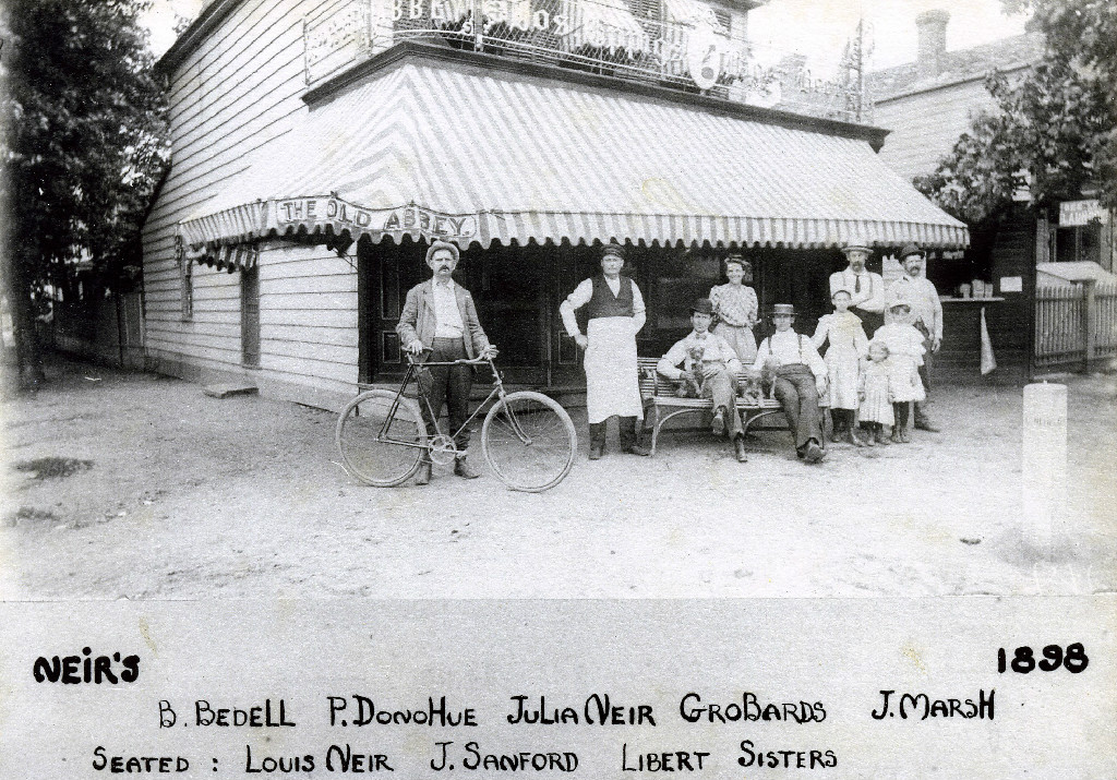 1898 Photo of Neir's Tavern in Woodhaven, Queens